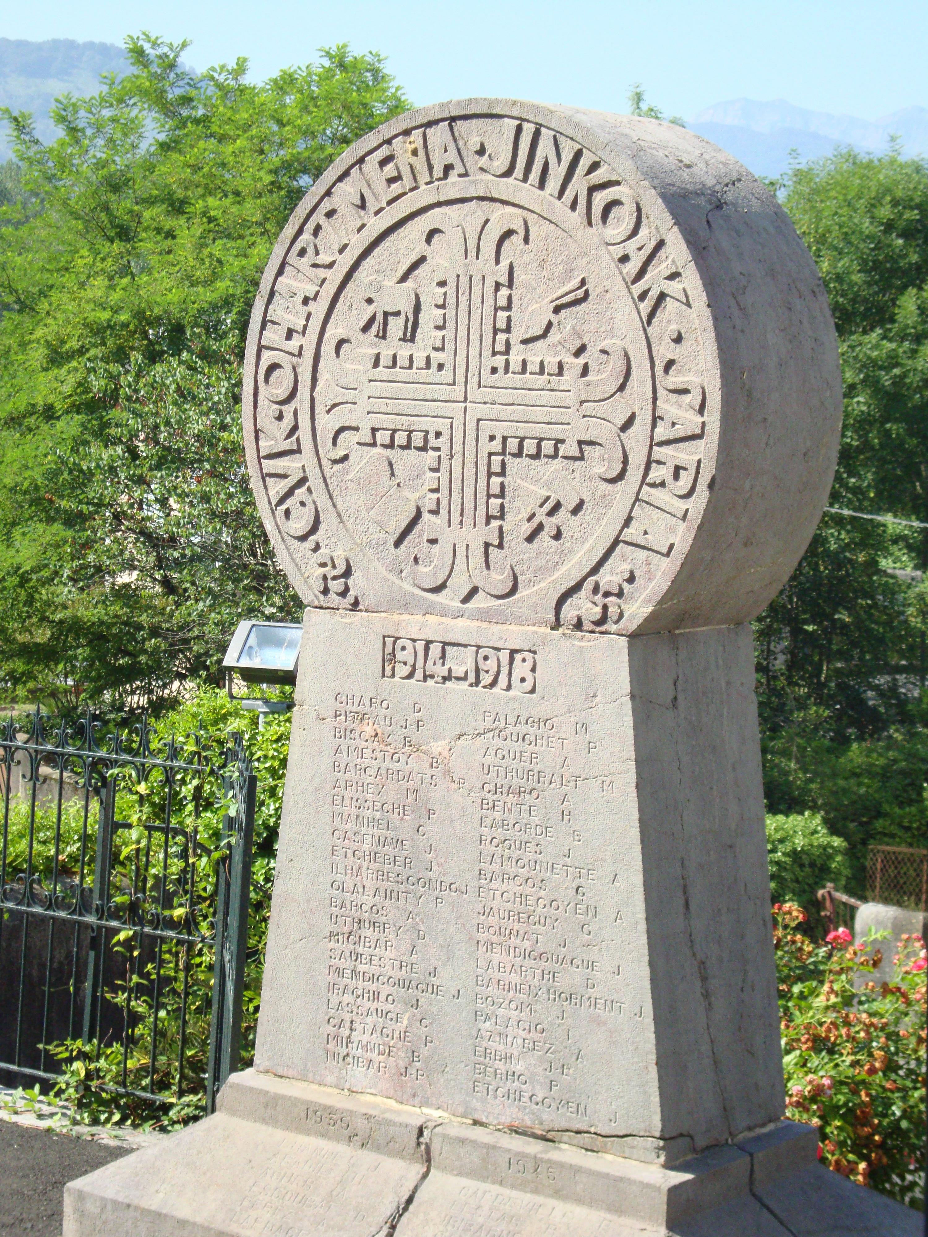 Tardets-Sorholus (Pyr-Atl, Fr) war memorial formed as a basque stele